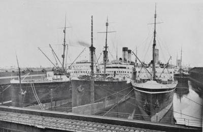 Canada Dock: RMS Empresses of France, India & Britain + SS Metagama